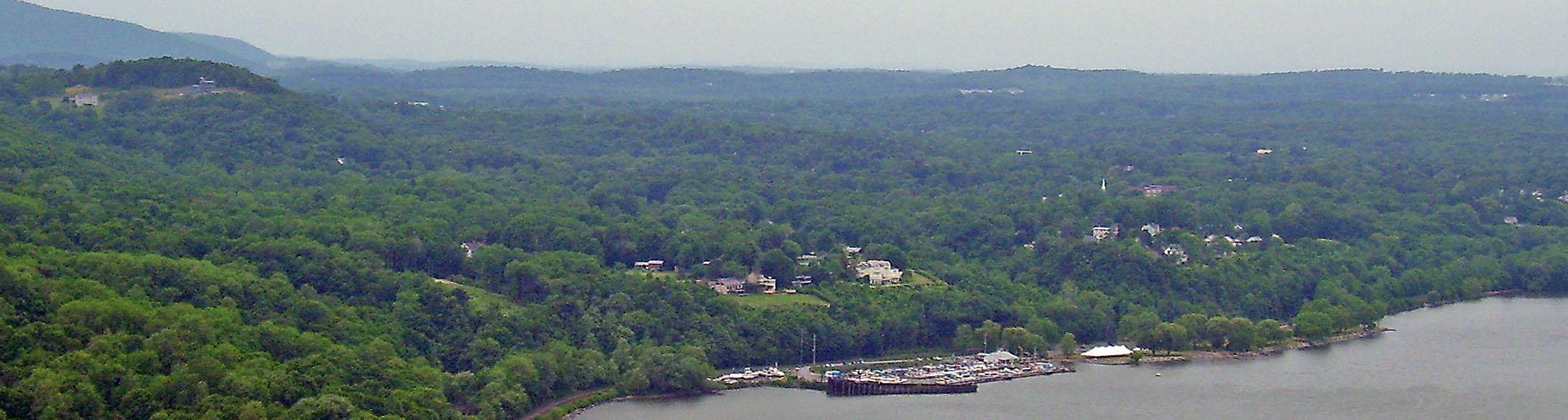 Photographed 2007-06-03 from the first knob on Breakneck Ridge across the river.